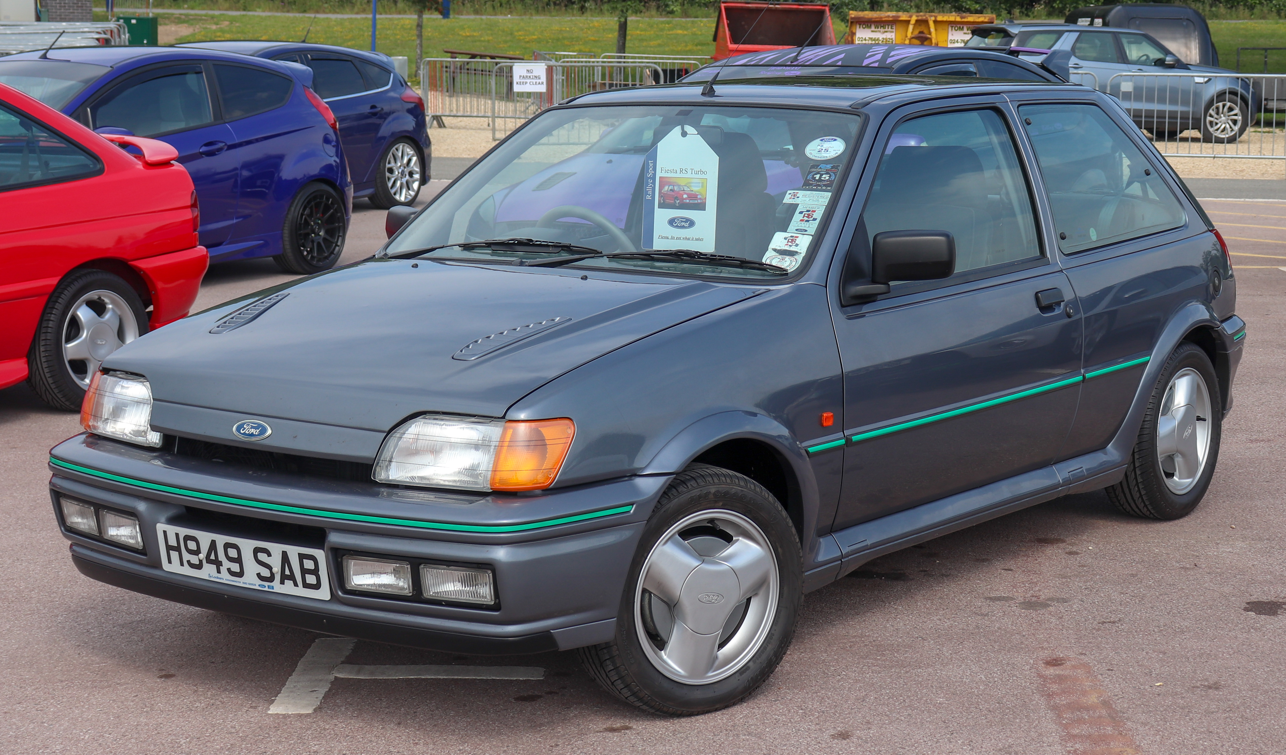 1991 Ford Fiesta RS Turbo 1.6 Front Taken at the Ford Nationals 2019, British Motor Museum, Gaydon